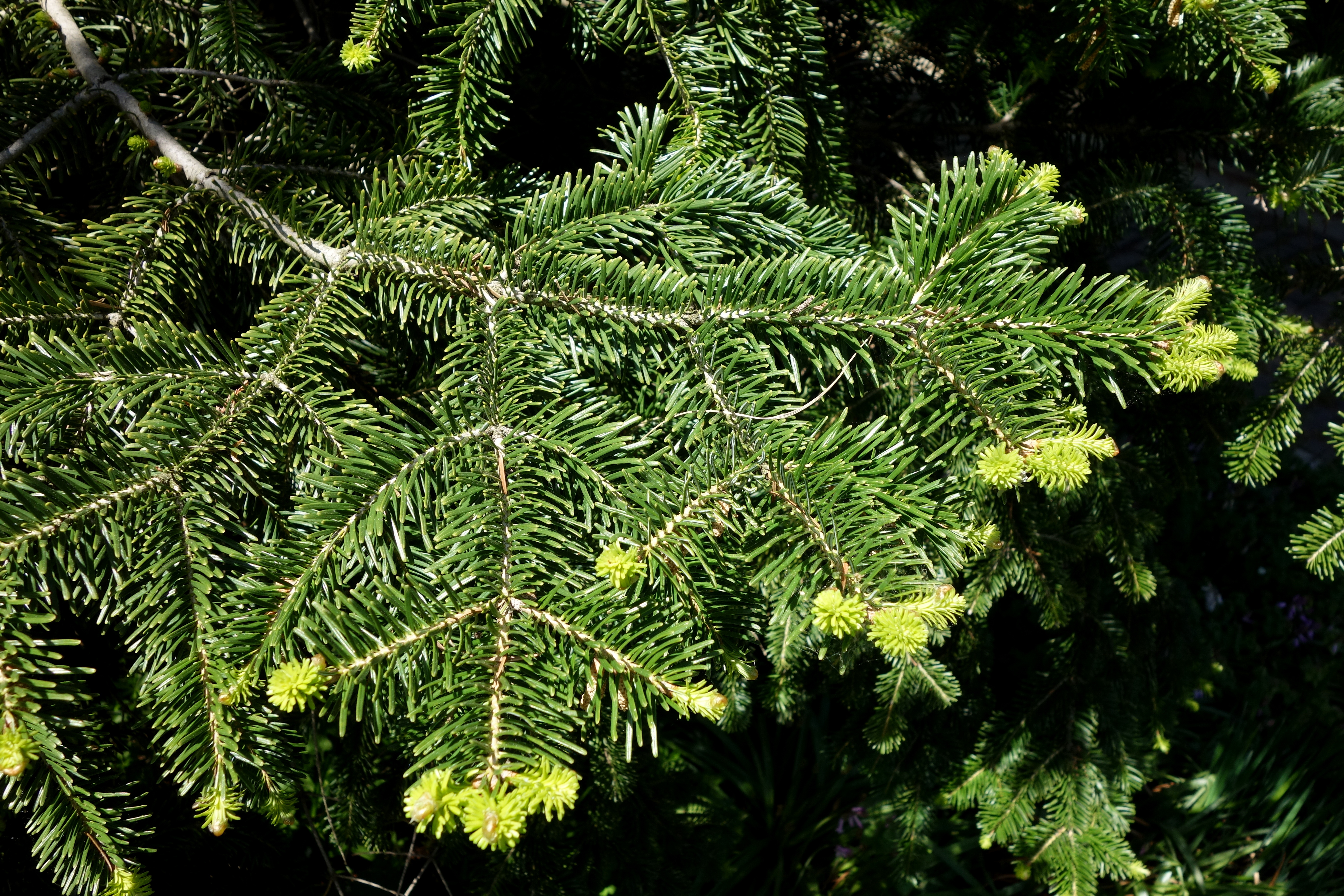 Botanical specimen in the Morris Arboretum, 100 East Northwestern Avenue, Chestnut Hill, Philadelphia, Pennsylvania, USA.